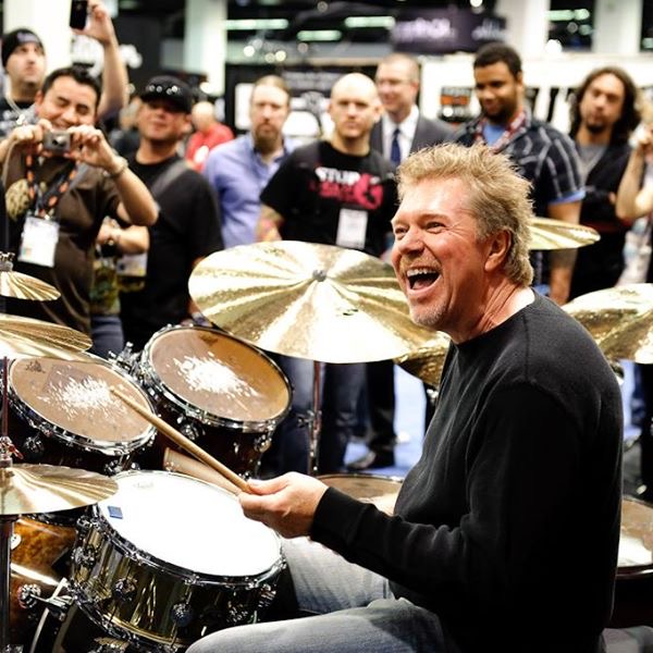 Drummer John "JR" Robinson at a product demo for Paiste cymbals. NAMM convention in January 17, 2011, Anaheim, California. Also see this YouTube video.